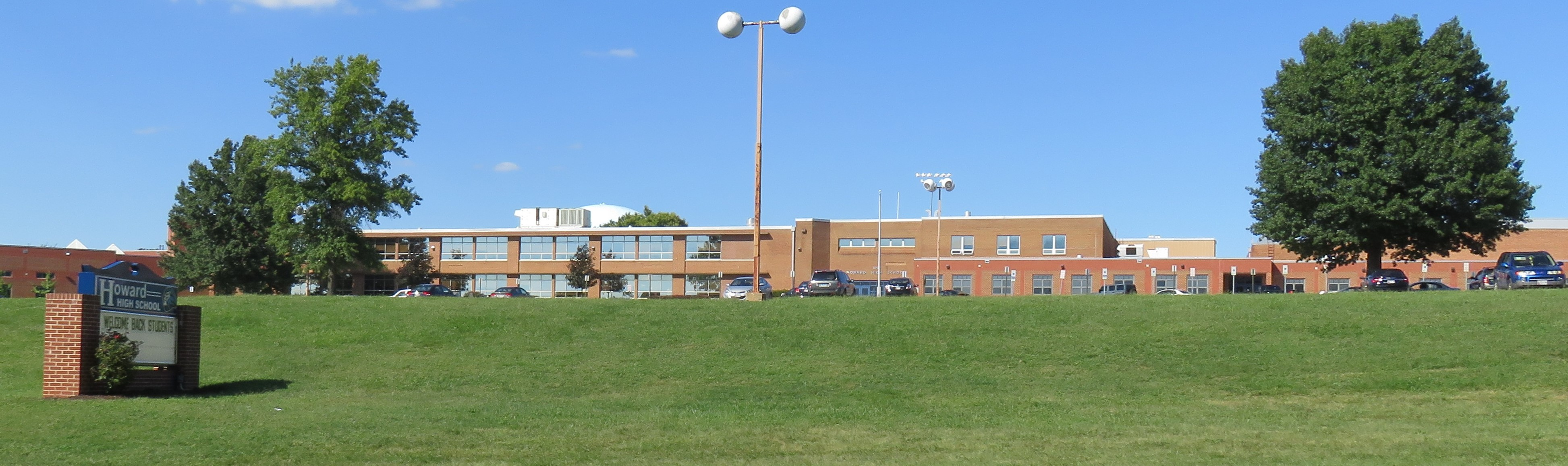 Howard High School - Howard County Maryland